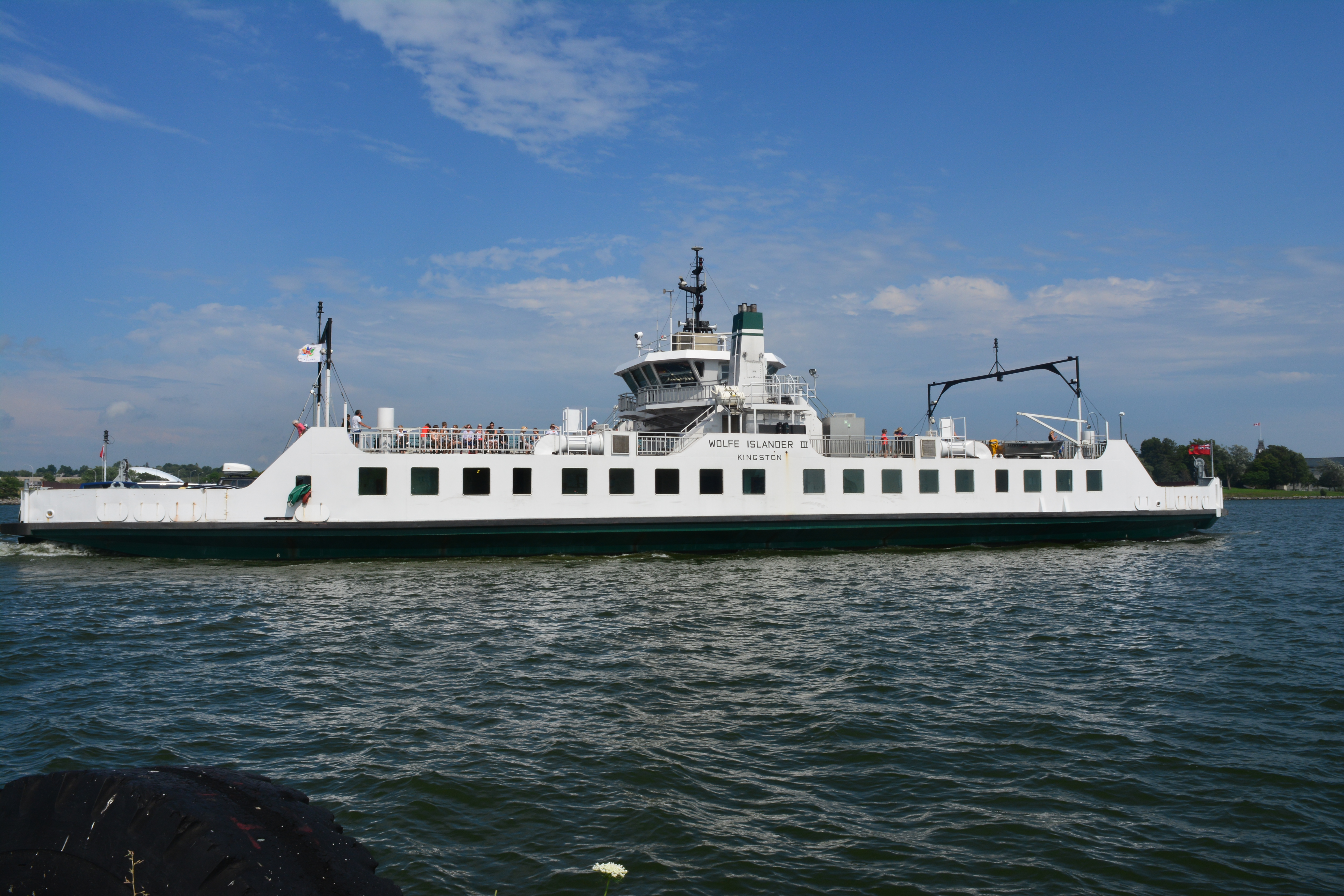 A side picture of the Wolfe Islander III as it is moving.